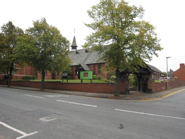 St Mark's church, Saltney St Mark's was built in 1892 by T M Lockwood. The structure is Ruabon red brick and the roof is 'graded Westmorland slate'; it is Grade II listed. The perimeter wall is contemporaneous with the church but the Lych gate dates to 1920 and is separately listed Grade II. Analysis of the distances between marks on the surveyors schedule for the First Geodetic Levelling Chester to Flint section, seems to indicate that there was a bench mark at this location on a gate post on the south side of the road. However, the gatepost should be west of the brick works, which was actually west of it. Today the church is surrounded by housing.